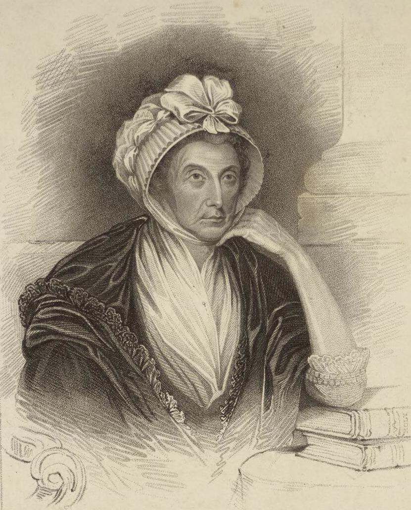 A portrait from the Welsh Portrait Collection at the National Library of Wales. Depicted person: Selina Hastings, Countess of Huntingdon – British countess